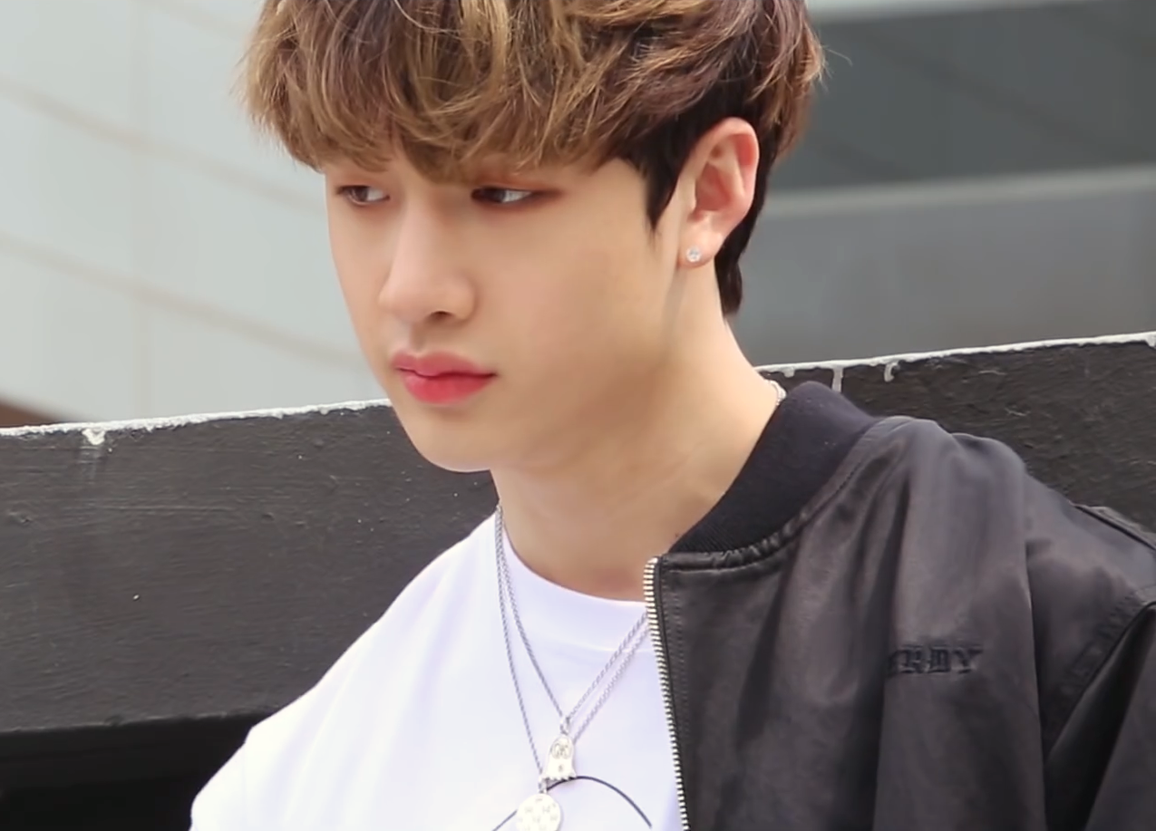 Bang Chan with Stray Kids in a photoshoot for TenAsia magazine, 15 May 2018